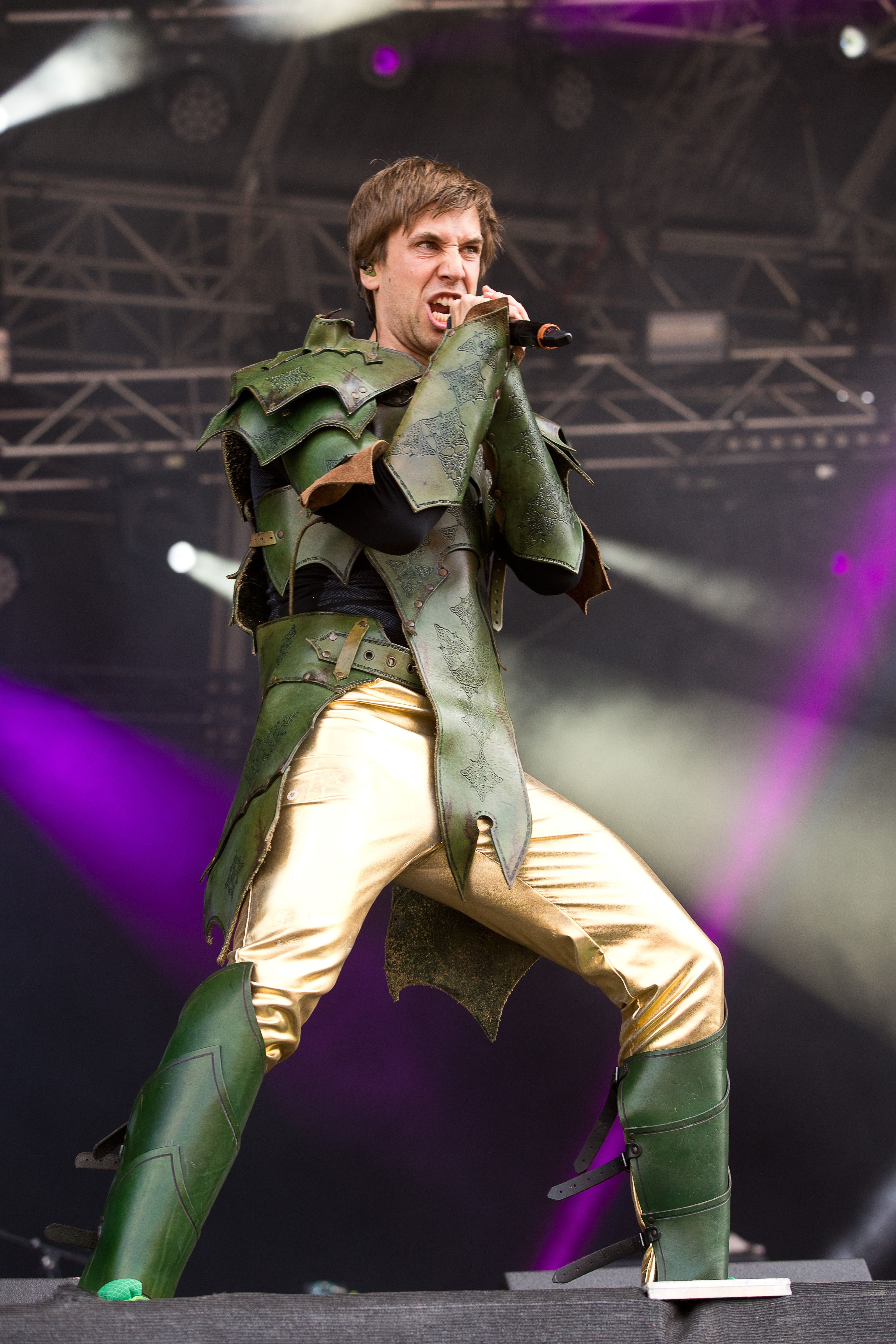 The Scottish-Swiss power metal band Gloryhammer at the Rockharz Open Air 2016 in Ballenstedt/Germany.